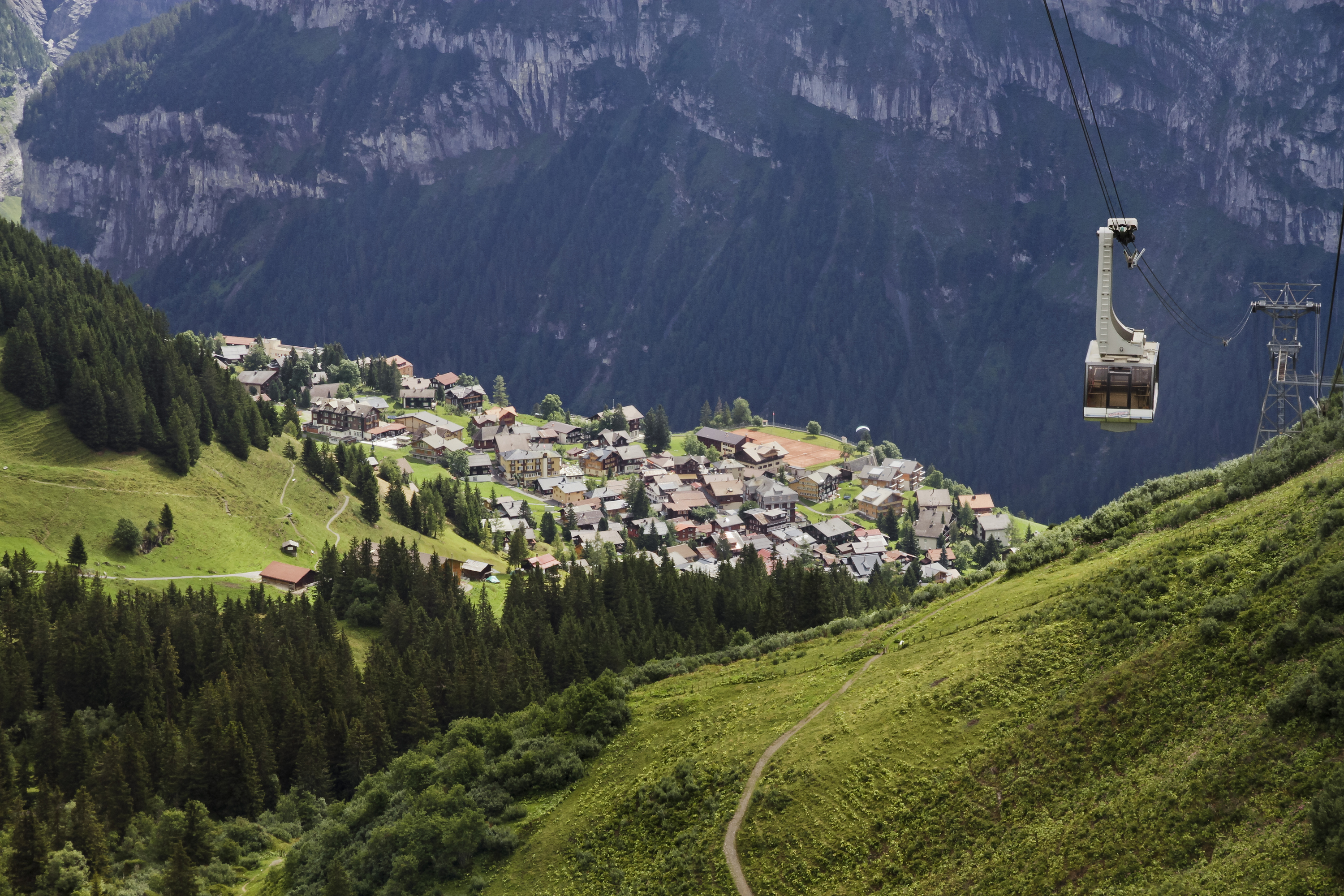 Mürren as seen from a cable car transporting between Birg station and Mürren, currently above Blumental valley in Bernese Oberland, Switzerland in 2012 August.